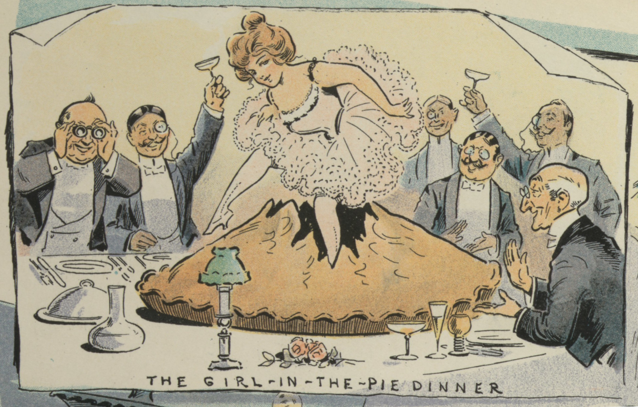 A young woman in a dress emerges from a large pie on a dinner table, surrounded by well-dressed men who clap and raise glasses and one one man stares with opera glasses.